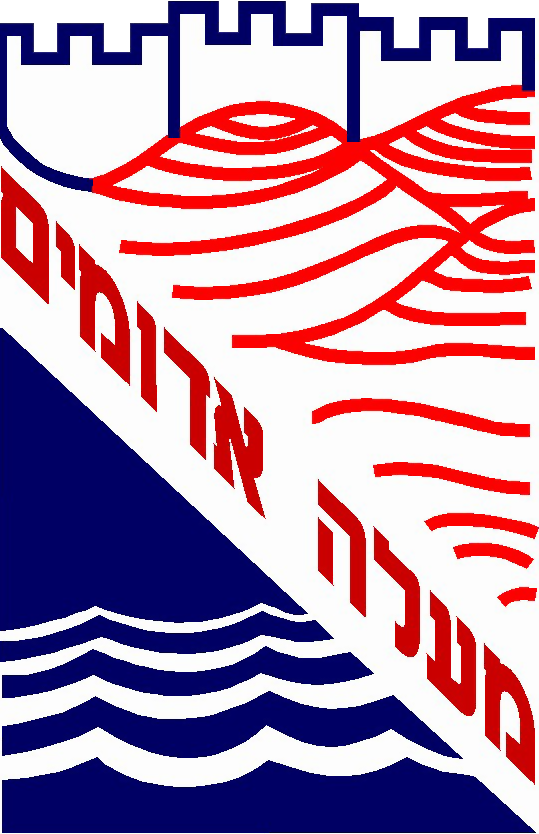 Coat of Arms of the city of Ma'ale Adumim